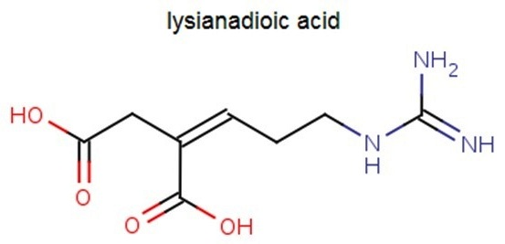 Chemical formula for Lysianadioic acid